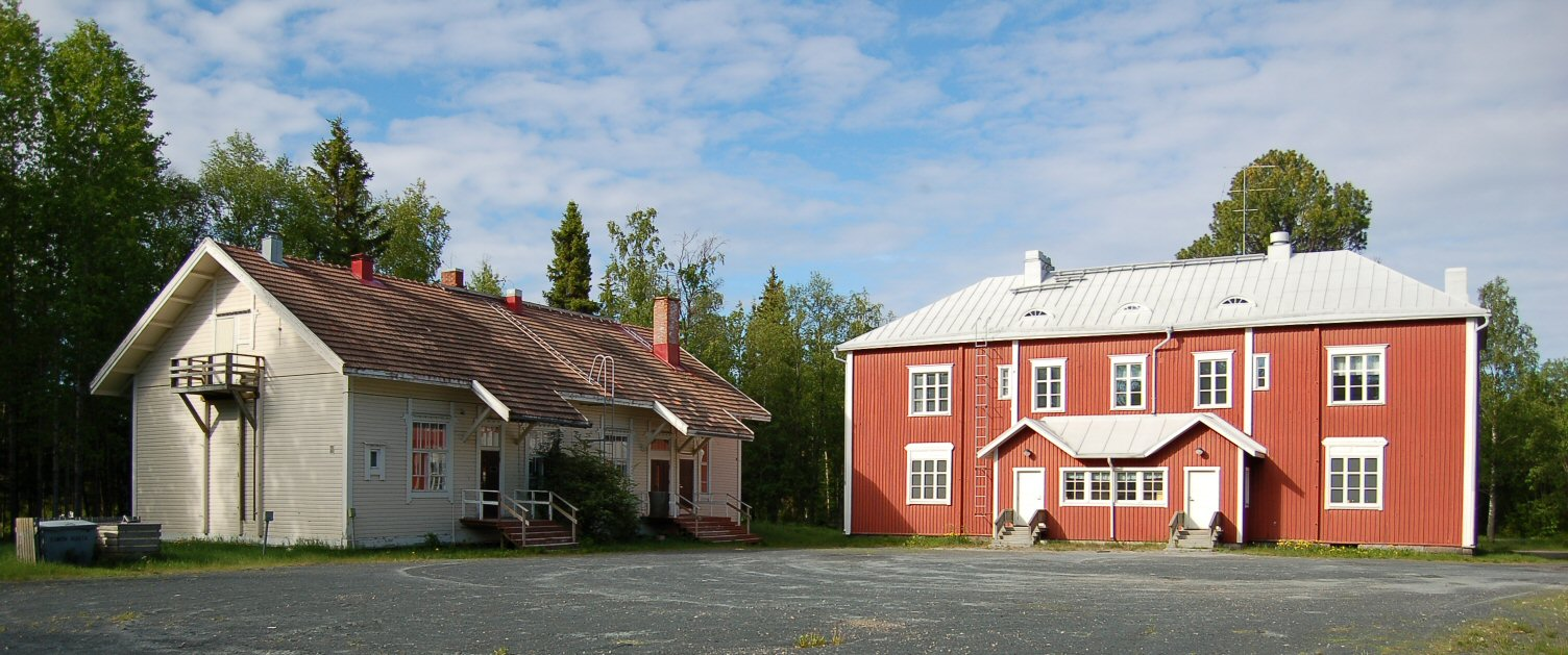 Simonkylä school buildings in Simonkylä, Simo, Finland.